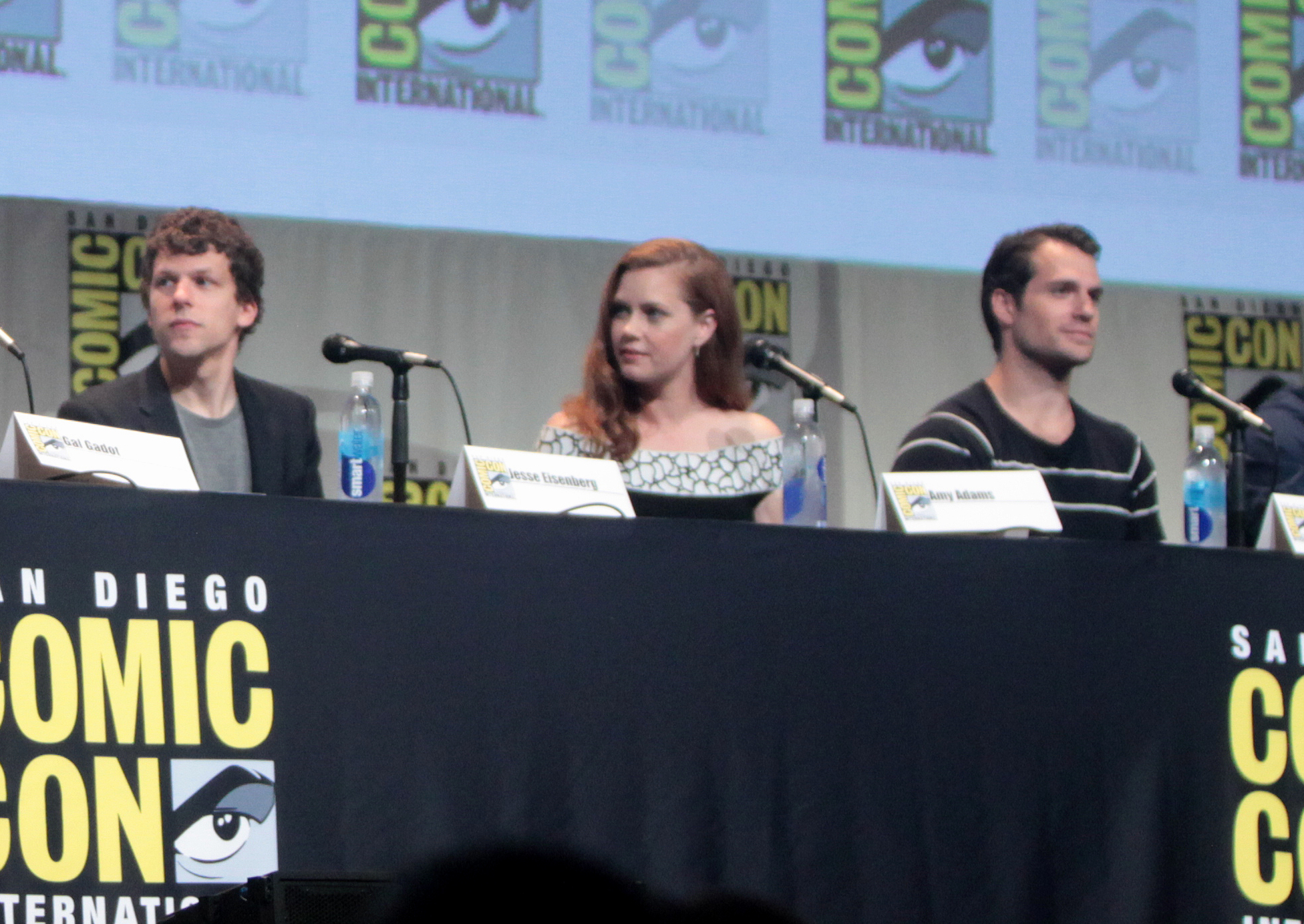 Zack Snyder, Holly Hunter, Jeremy Irons, Gal Gadot, Jesse Eisenberg, Amy Adams, Henry Cavill and Ben Affleck speaking at the 2015 San Diego Comic Con International, for "Batman v Superman: Dawn of Justice", at the San Diego Convention Center in San Diego, California.